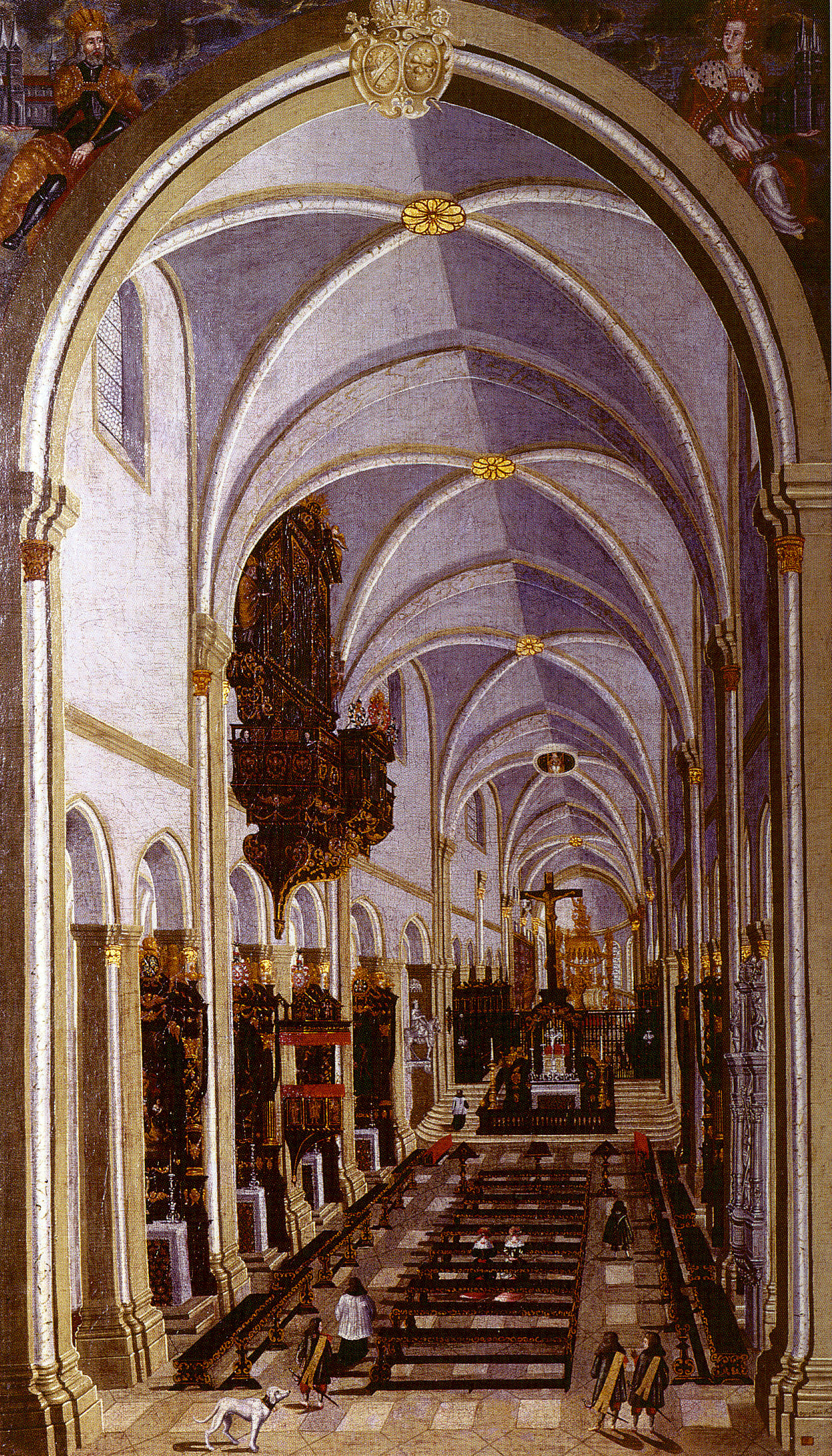 Cathedral of Bamberg, Germany